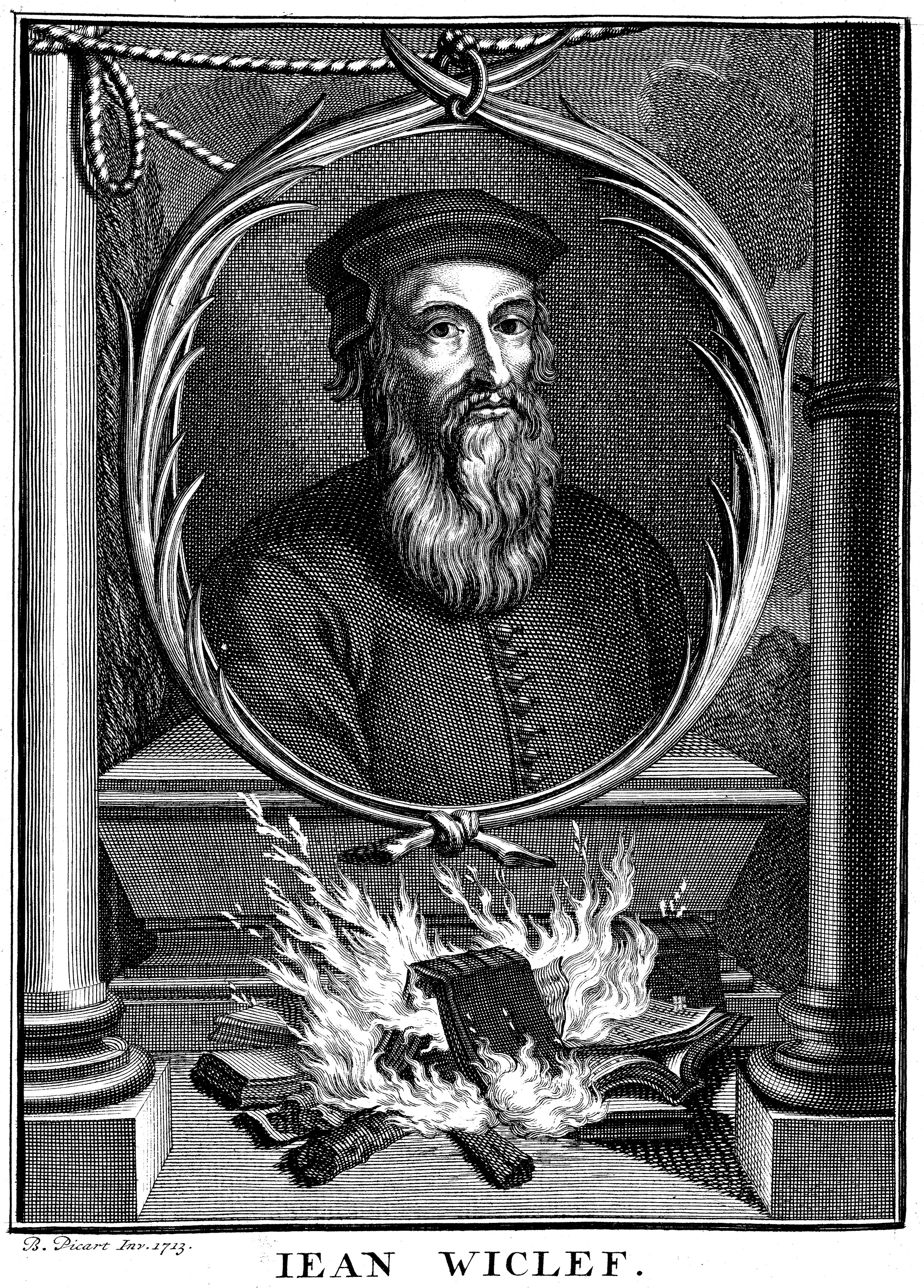 A portrait of John Wycliffe (c.1328–1384), a Catholic reformer and theologian from England, posthumously named a heretic by the Council of Constance. The Council decreed that his books should be burned and his body exhumed. The engraver, Bernard Picart (1673–1733), has placed his signature at the lower left.